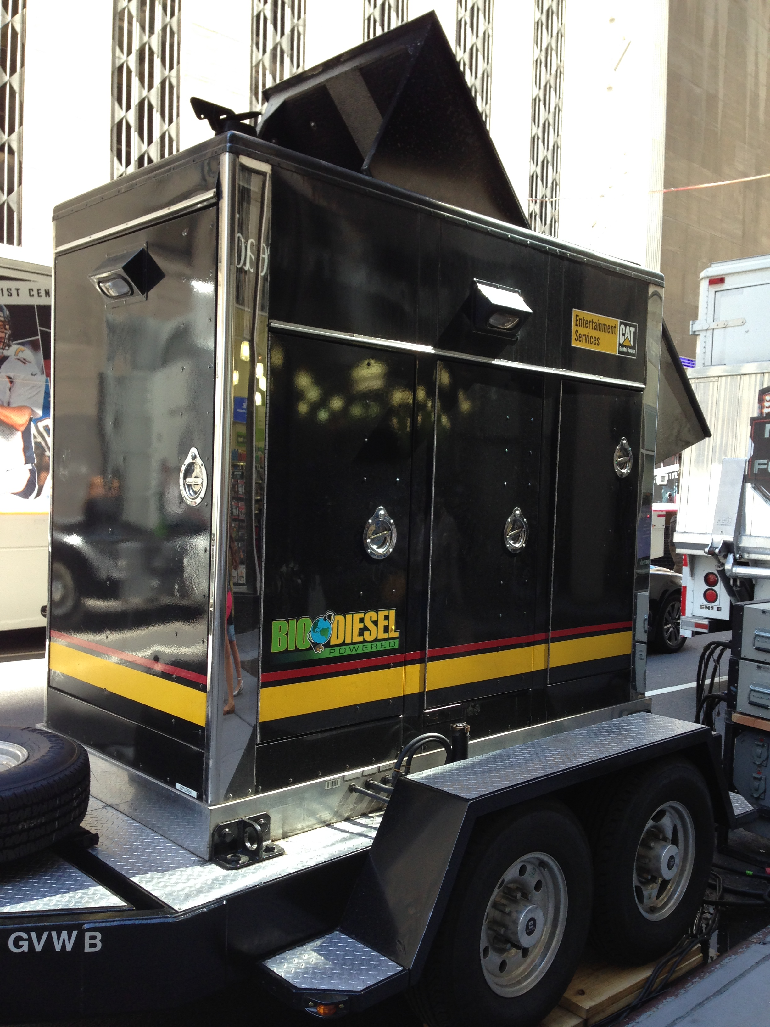 Rental generator unit powered by Biodiesel